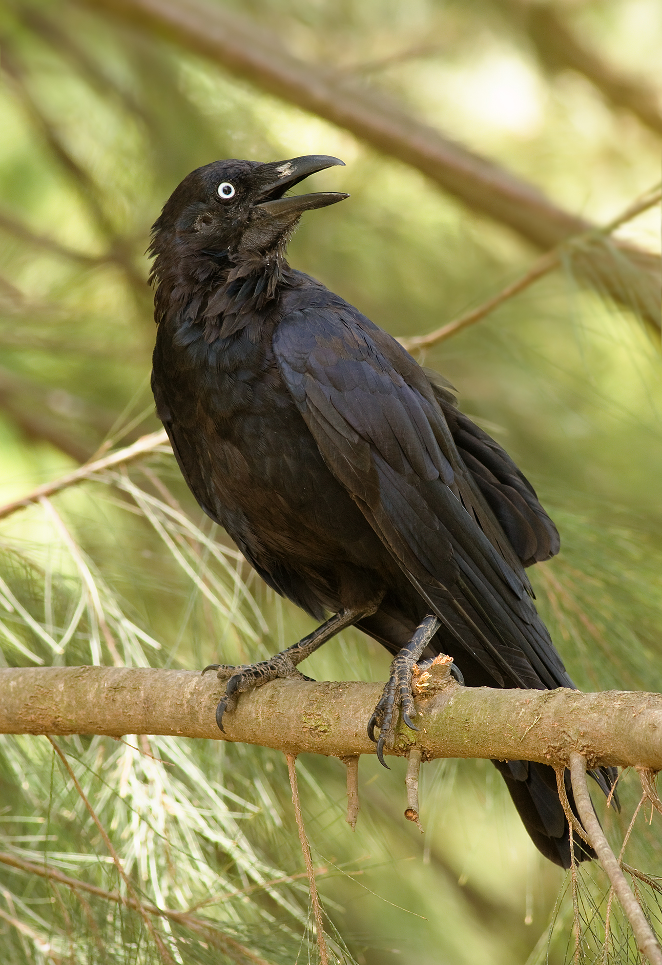 Australian Raven (Corvus coronoides), Australian National Botanic Gardens, Canberra, Australian Capital Territory, Australia